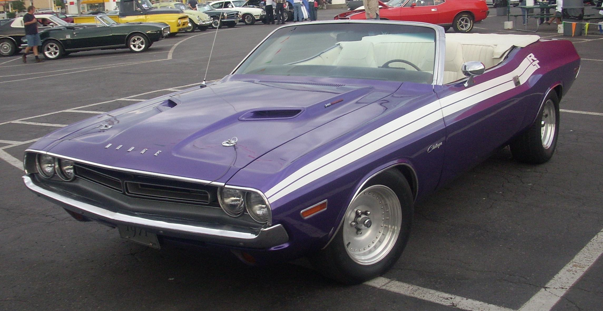 1971 Dodge Challenger photographed in Montreal, Quebec, Canada at Gibeau Orange Julep.